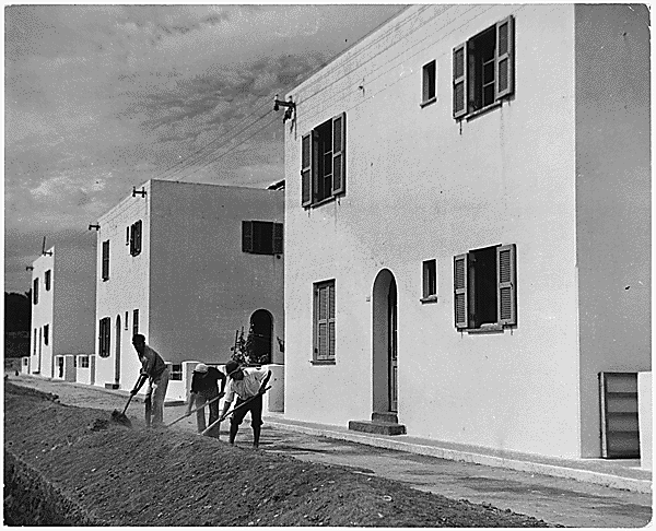 Greece. Workmen grade the street in front of new housing constructed with the help of Marshall Plan funds in Greece, ca. 1948 - ca. 1955 ARC Identifier 541700 / Local Identifier 286-ME-7(1) Item from Record Group 286: Records of the Agency for International Development, 1948 - 2003